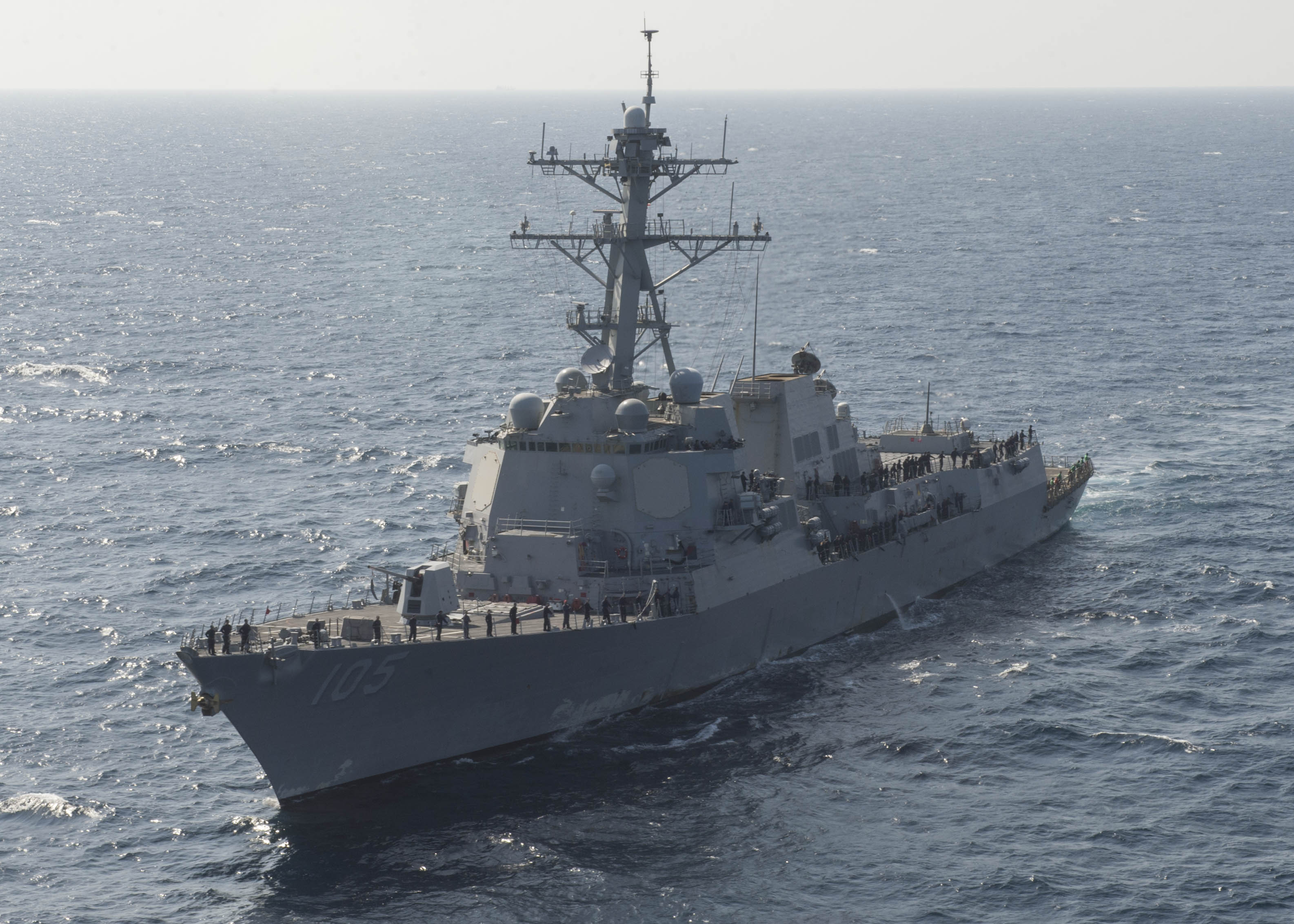 RED SEA (Nov. 9, 2014) Sailors aboard the Arleigh Burke-class guided-missile destroyer USS Dewey (DDG 105) man the rails as the ship transits the Red Sea during the International Mine Countermeasures Exercise (IMCMEX). IMCMEX is taking place Oct. 27 through Nov. 13, 2014. IMCMEX includes navies from more than 40 countries whose focus is to promote security through mine countermeasure operations in the U.S. 5th Fleet area of responsibility and throughout the world. (U.S. Navy photo by Mass Communication Specialist 3rd Class James Vazquez/Released)